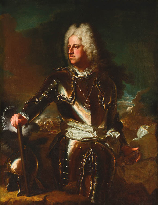 Portrait of Charles III Ferdinand, Duke of Mantua (1652-1708)